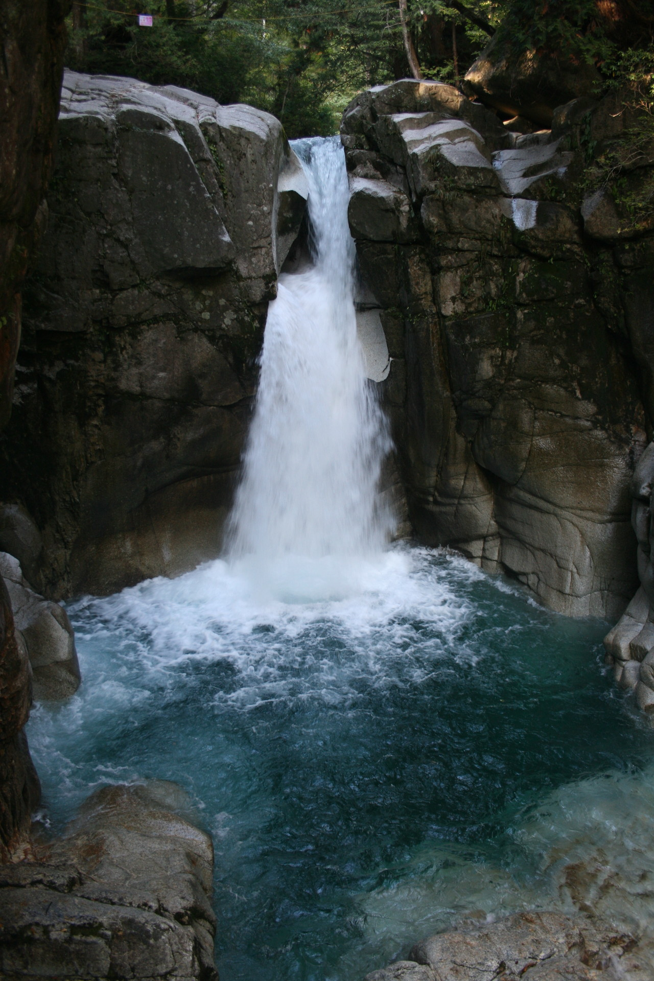 Ryujin_Falls_of_Kawaue_River